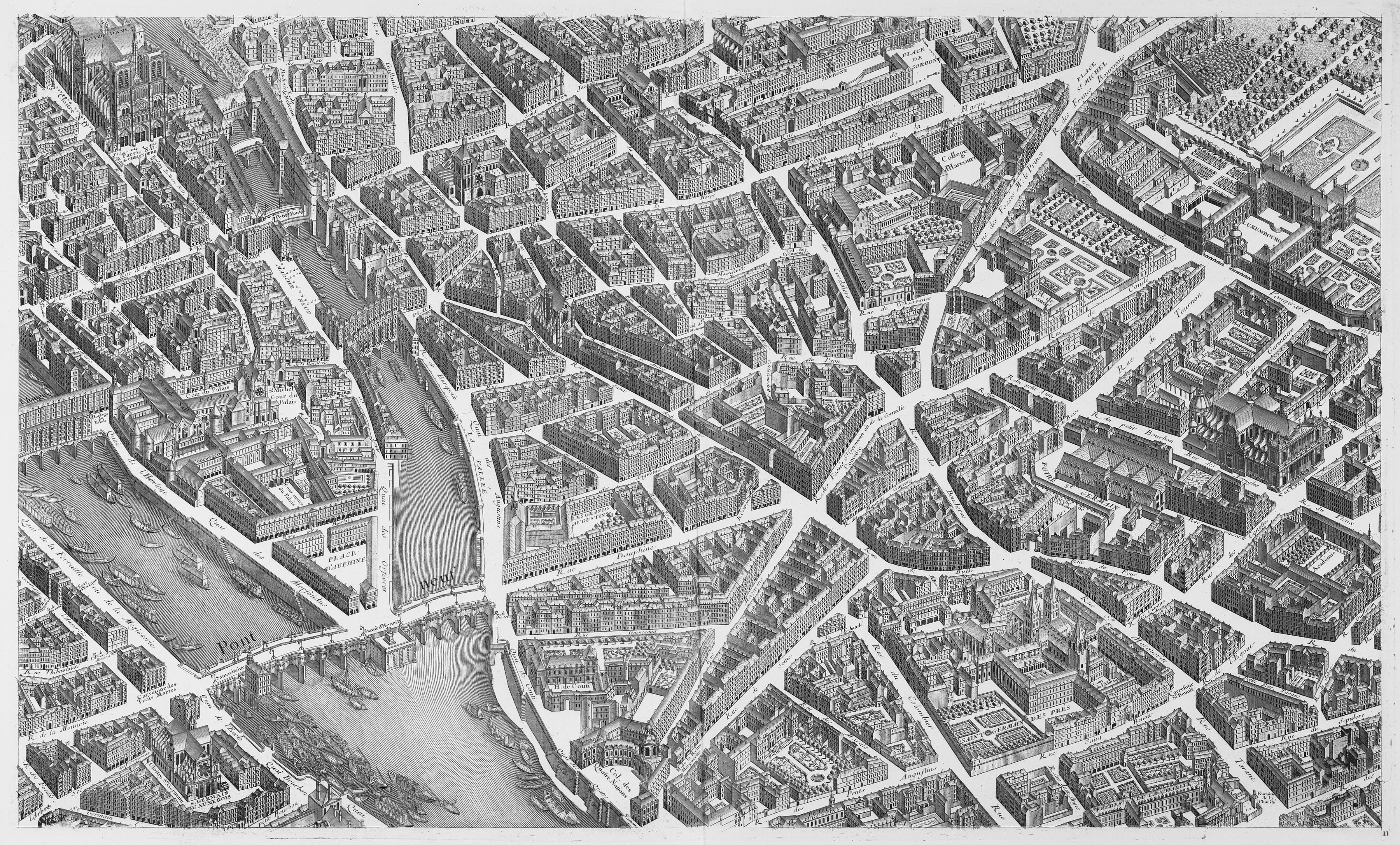 Plate 11 of the Turgot map of Paris